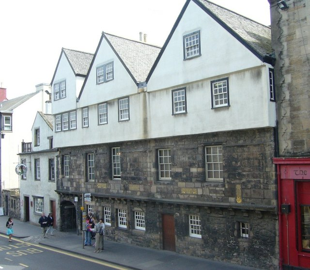 Huntly House Museum City museum containing exhibits from the history of Edinburgh.